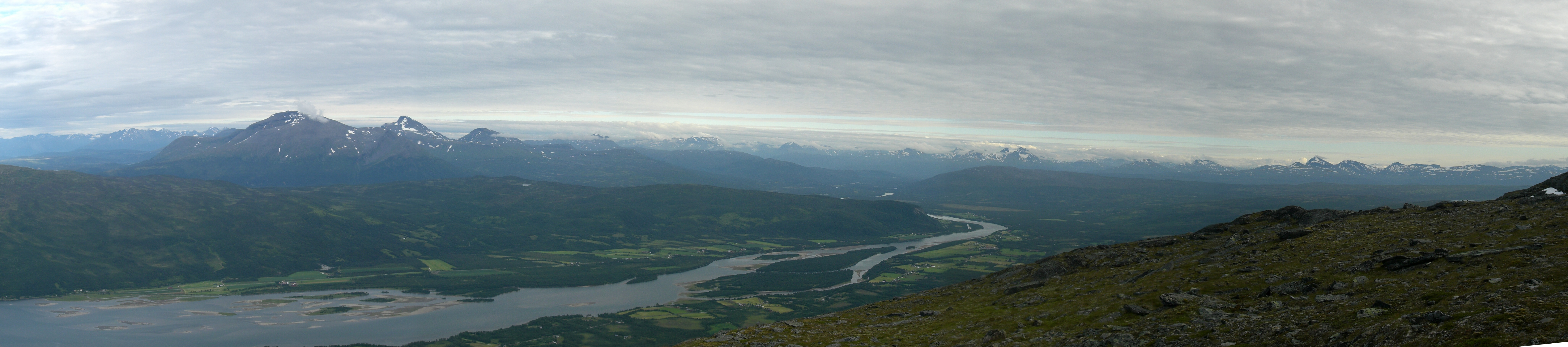 Panorama of Målselva river with Målselvfjorden. Troms, Norway